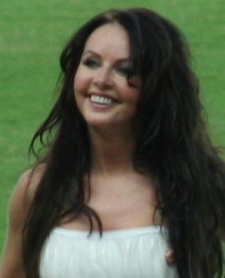 World Athletics Championships 2007 in Osaka - Singer Sarah Brightman at the Opening Ceremony